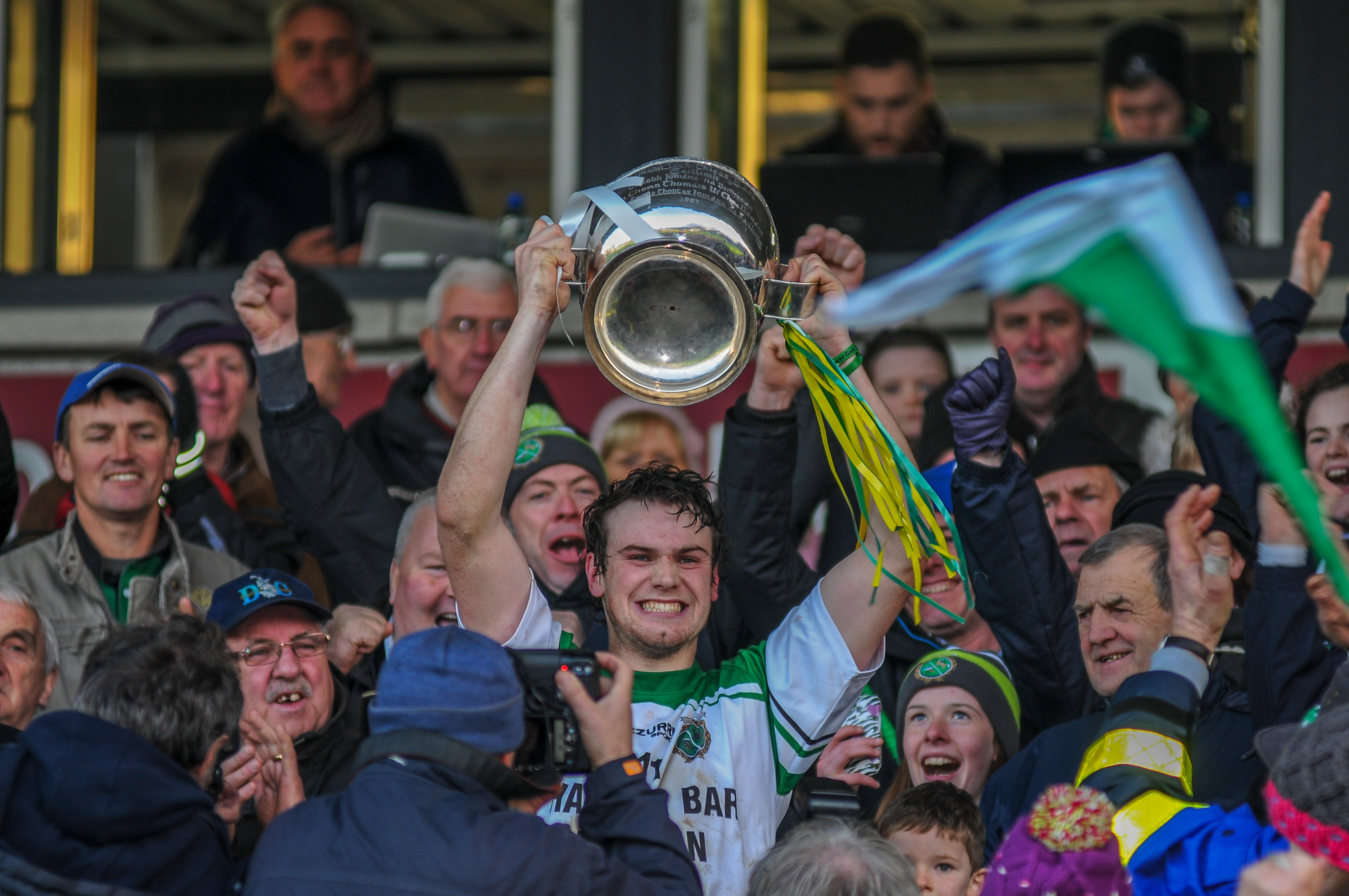 Joseph Cooney (Sarsfields) lifts the Tom Callanan cup